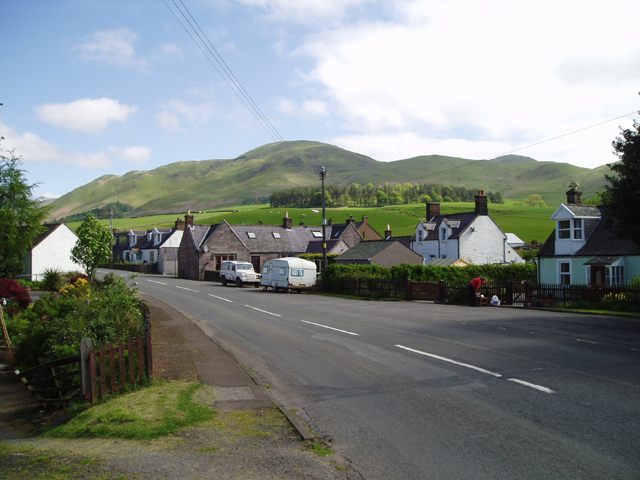 Durisdeermill. Small village at the southern end of the Dalveen Pass on the western side of the Lowther Hills.